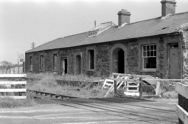 Glarryford Station Glarryford Station Opened 01-07-1856, closed 02-07-1973. Seen 6 years later in very poor condition.